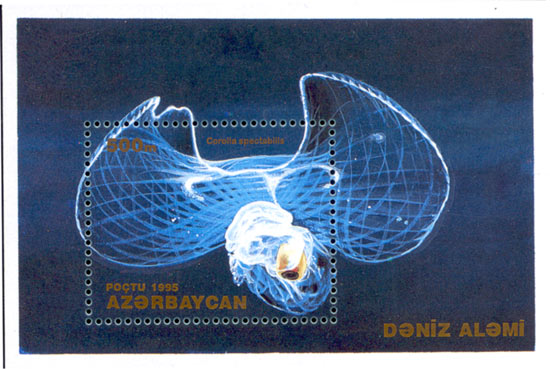 Stamp of Azerbaijan. Marine gastropod Corolla spectabilis.